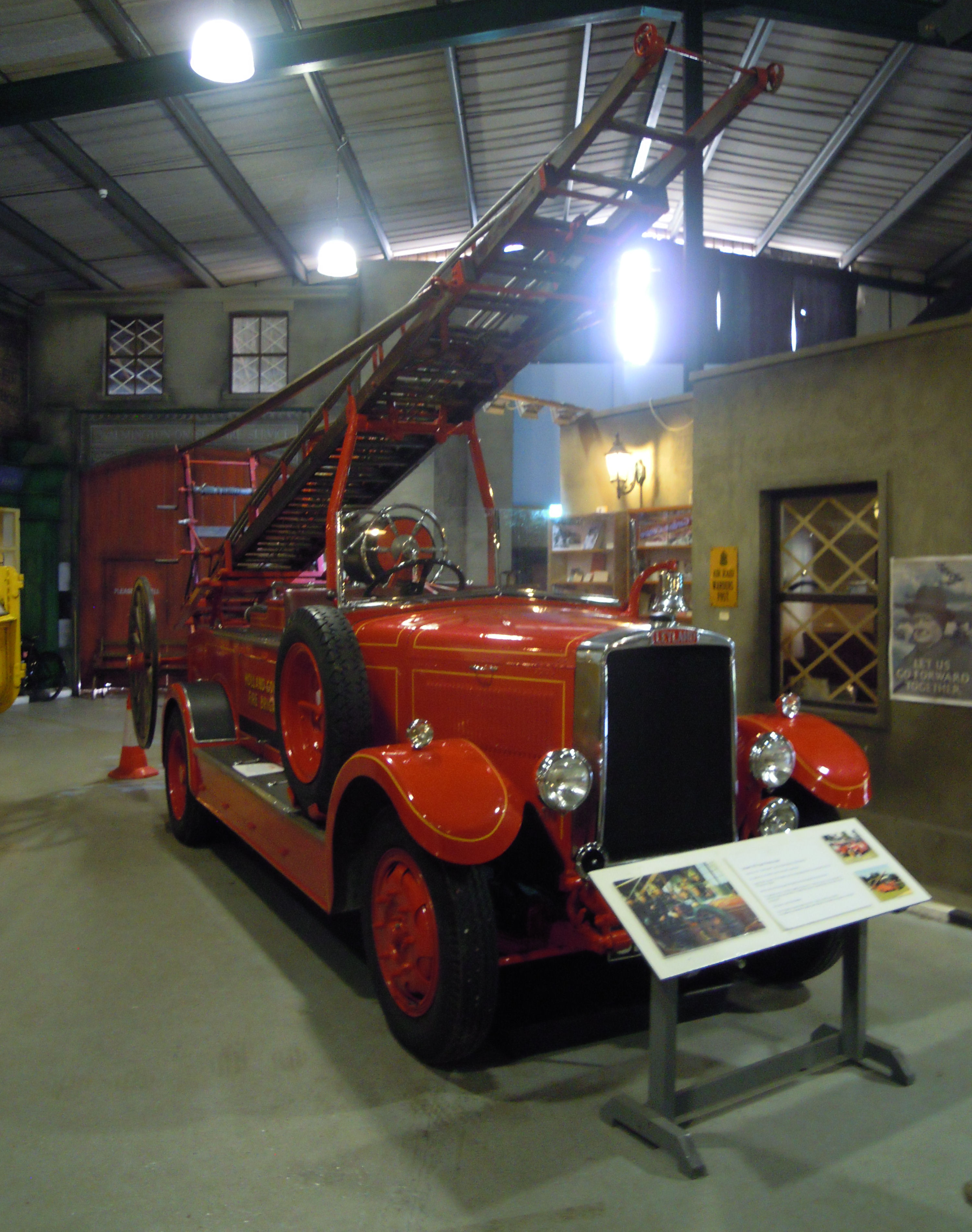 Vintage fire engine in the Dad's Army collection at Bressingham Steam and Gardens